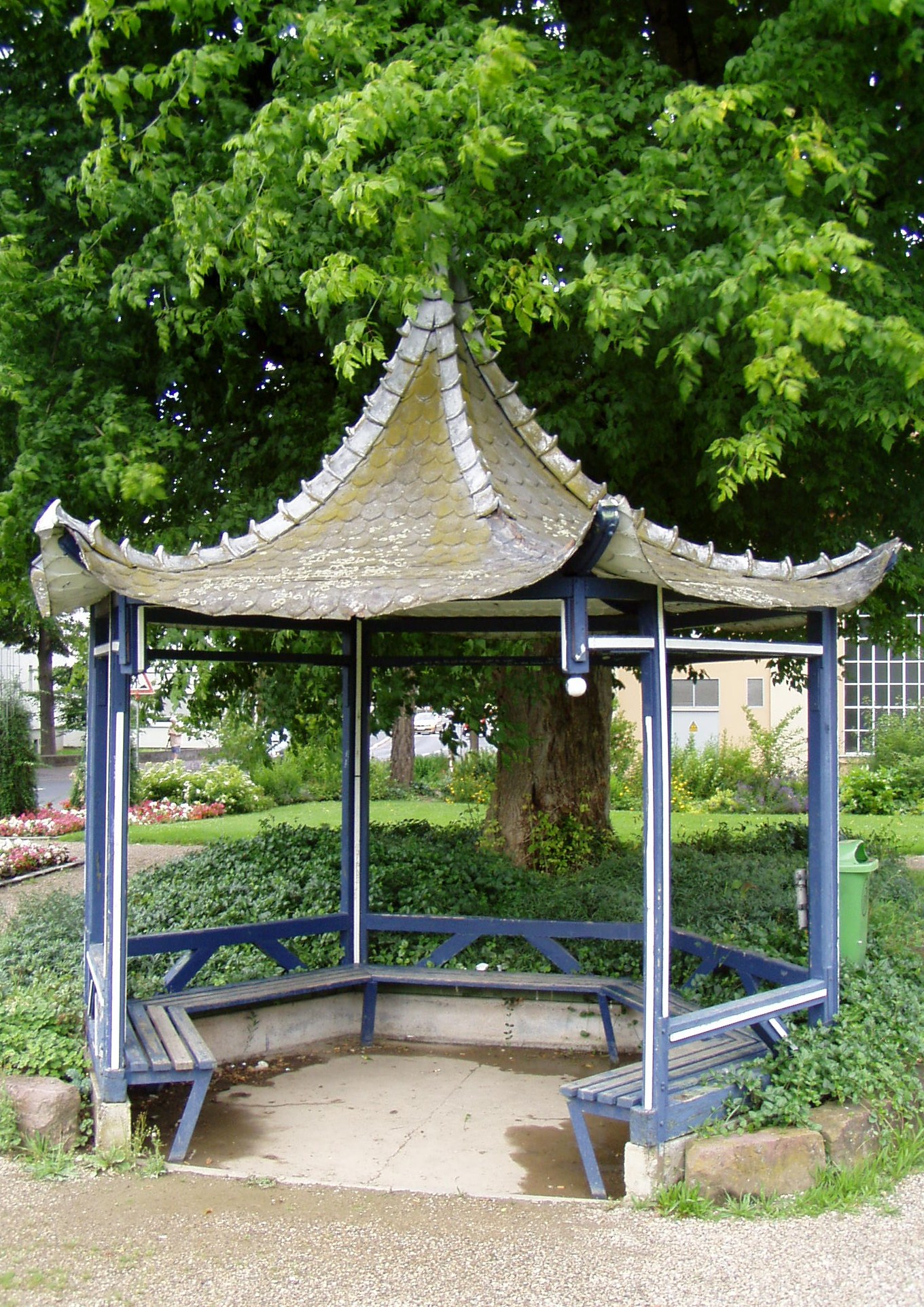 Pavillon in Bad Kissingen (Ignaz Ising)